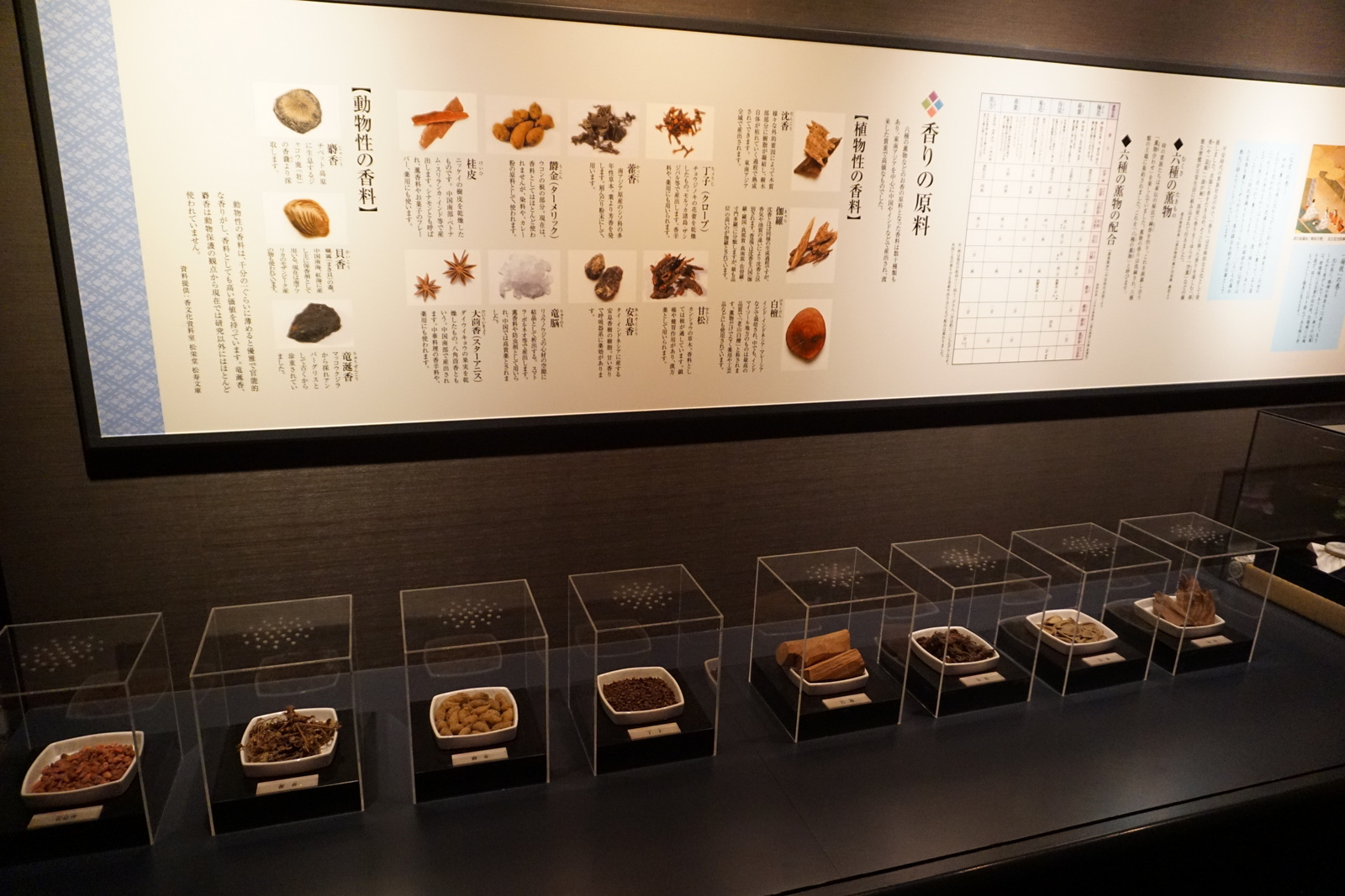 Exhibit of seasonings in Tale of Genji museum